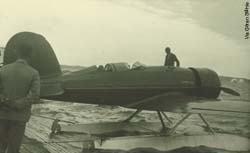 Charles Lindberg at airport in September 1933